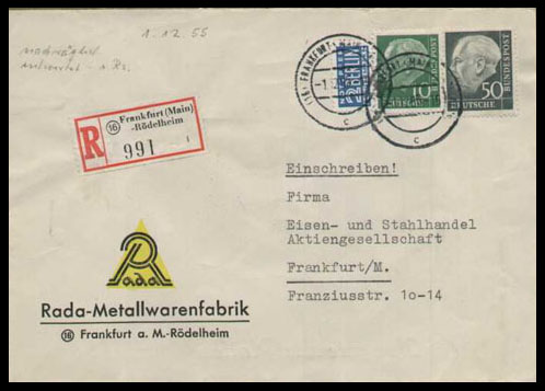 Cover of Germany, registered mail, December 1, 1955. Stamps: (1) Notopfer Berlin, (2-3) President Theodor Heuss, 1954, 10 and 50 pfennigs, Scott #708 and 714.